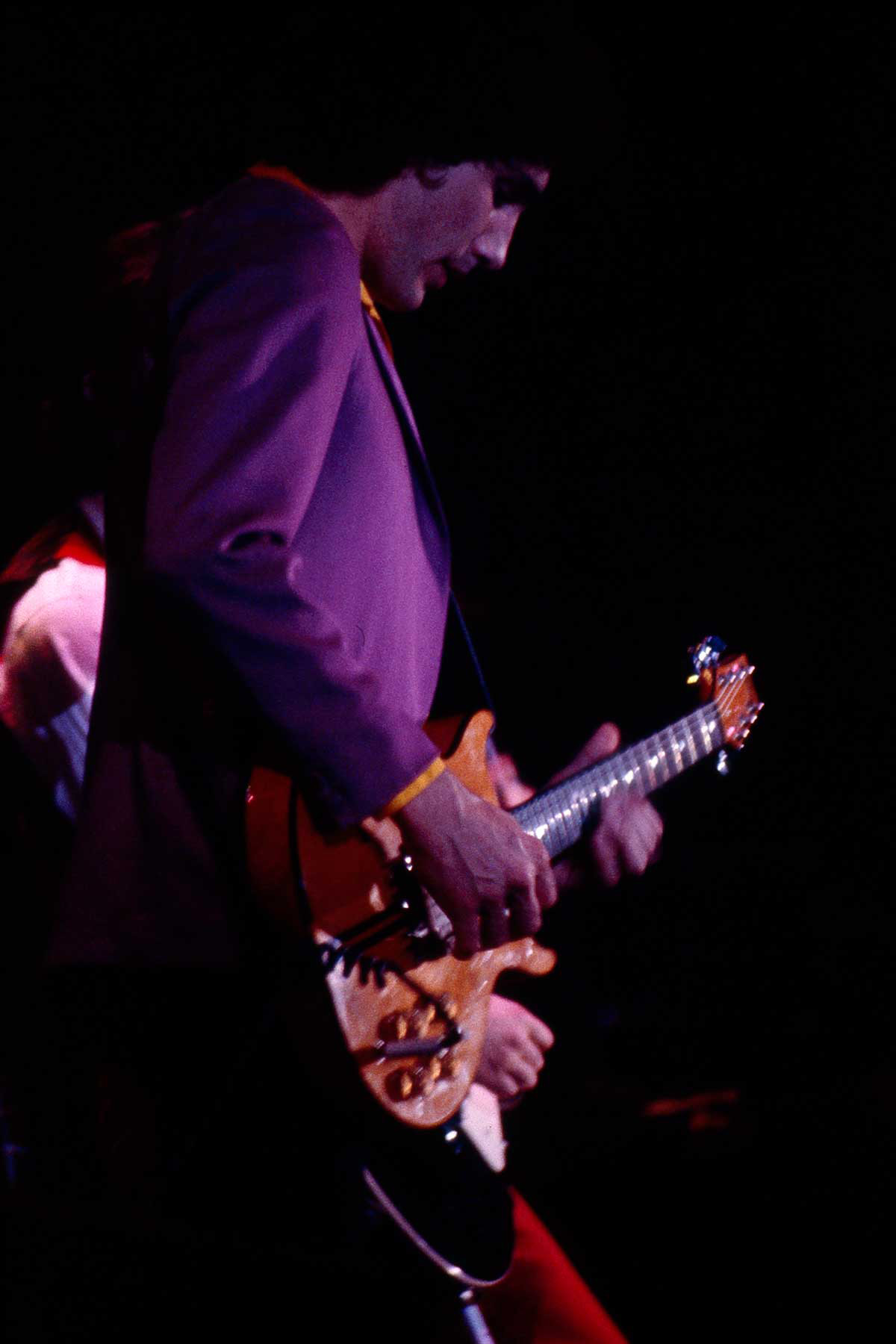 Mick Dyche of Sniff 'n' the Tears. Fickle Heart tour. November 23, 1979. Lakeland Civic Center, Lakeland, Florida, United States of America. Olympus OM-2n. Vivitar 90-230mm lens. Kodak Ektachrome Elite 400.